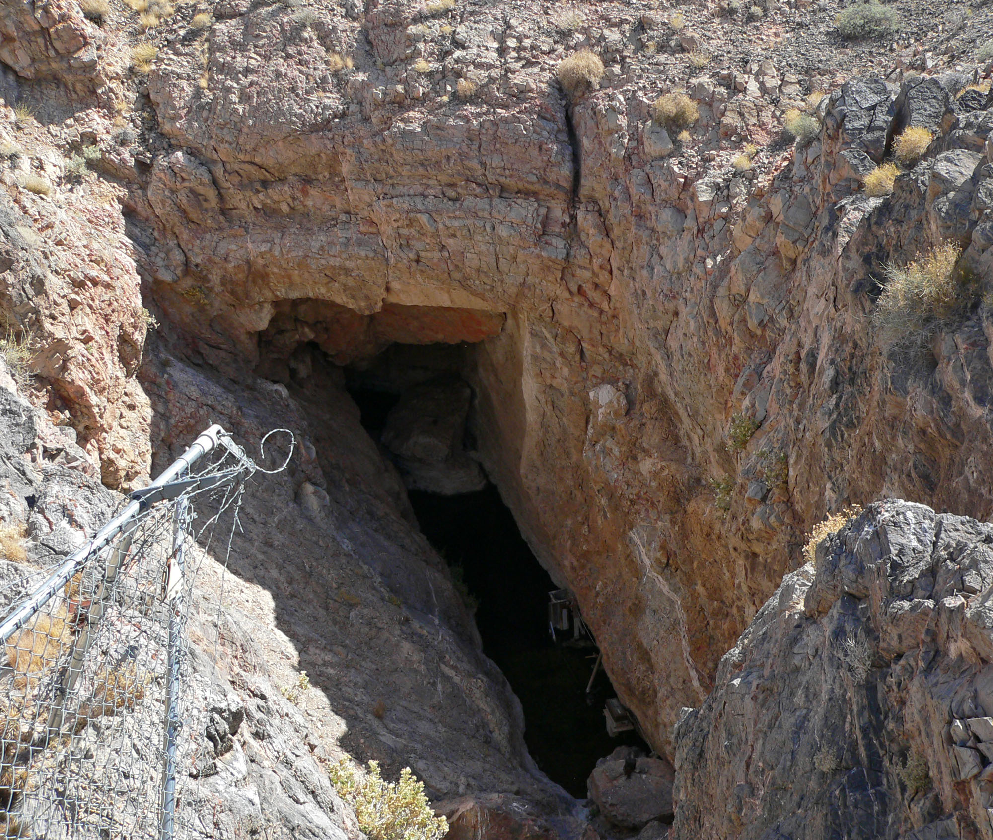 Devils Hole, Death Valley National Park, southern Nevada